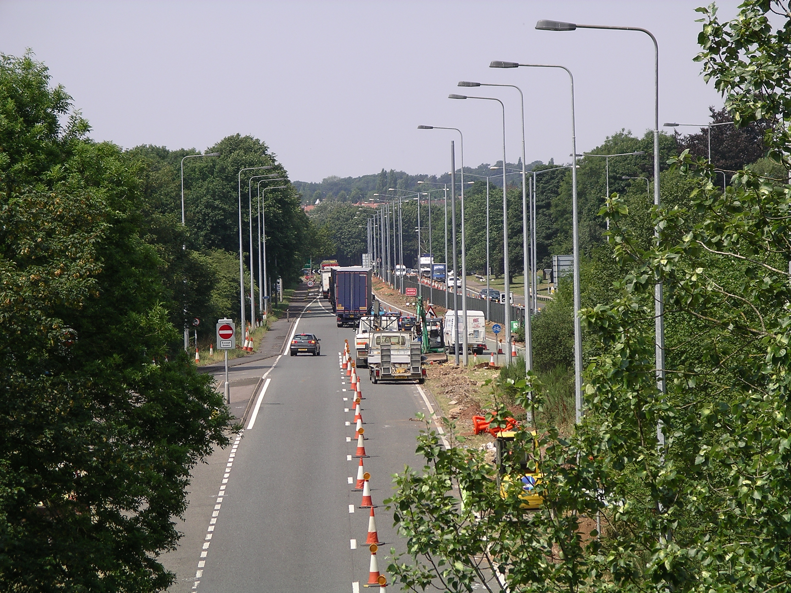 Road works. Photo taken from a pedestrian walk way over the A45/A46 traffic island towards the A45/A444 traffic island in South Coventry.